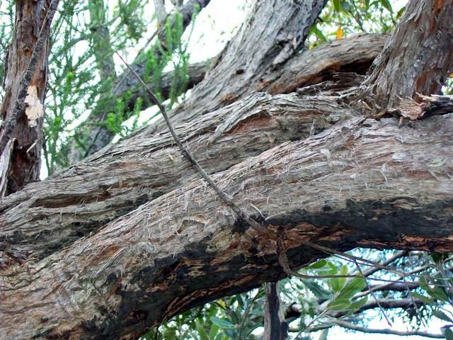 Eucalyptus umbra at the start of the Elvina Track, Ku-Ring-Gai Chase National Park, Australia